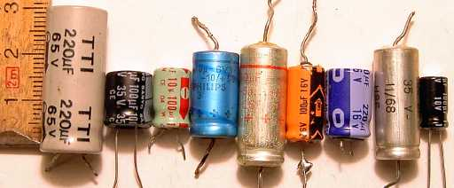 A selection of electrolytic capacitors, of both radial and axial construction and of various capacitances and ratings.